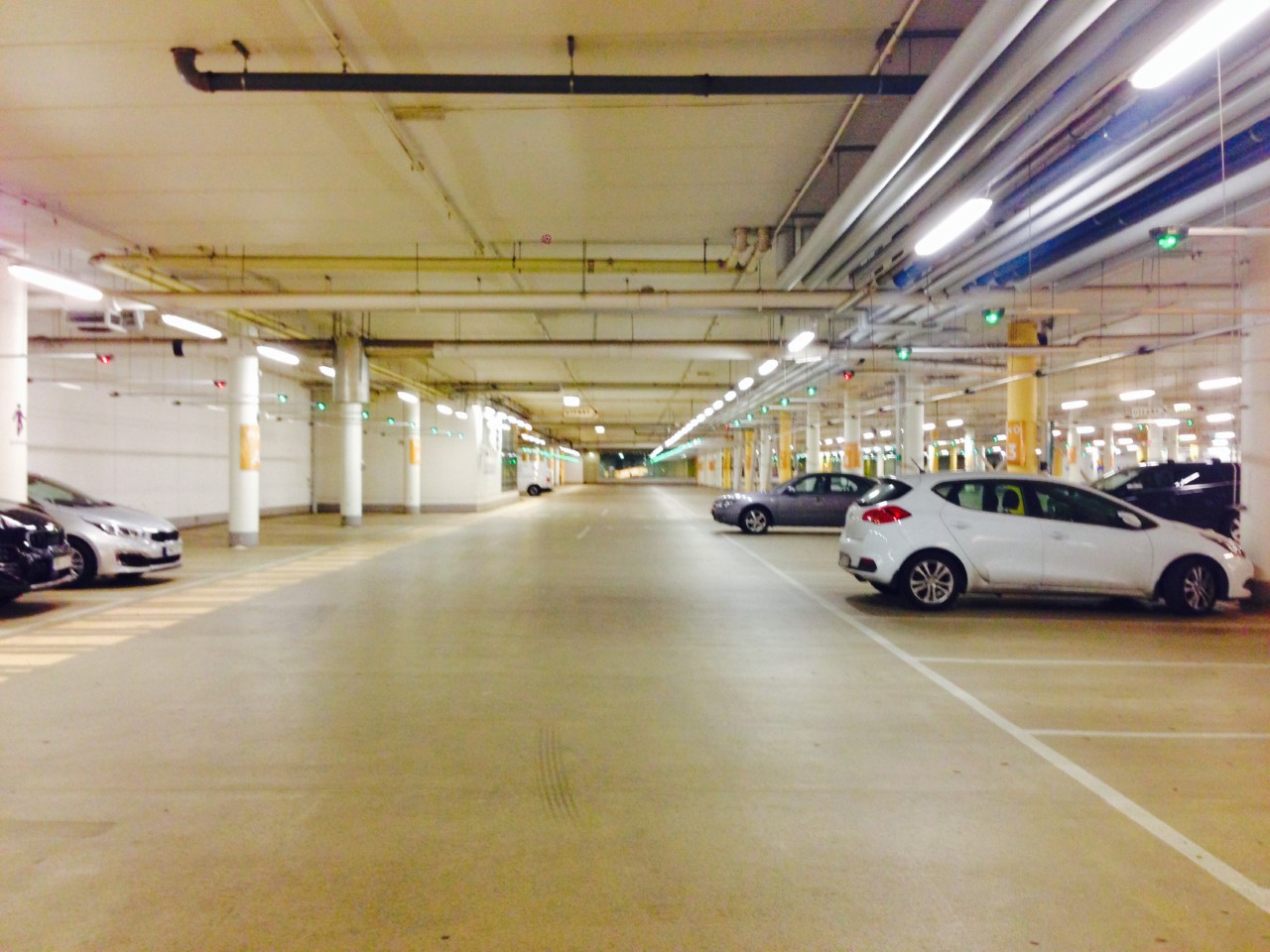 A picture of Nacka Forum Parking Lot